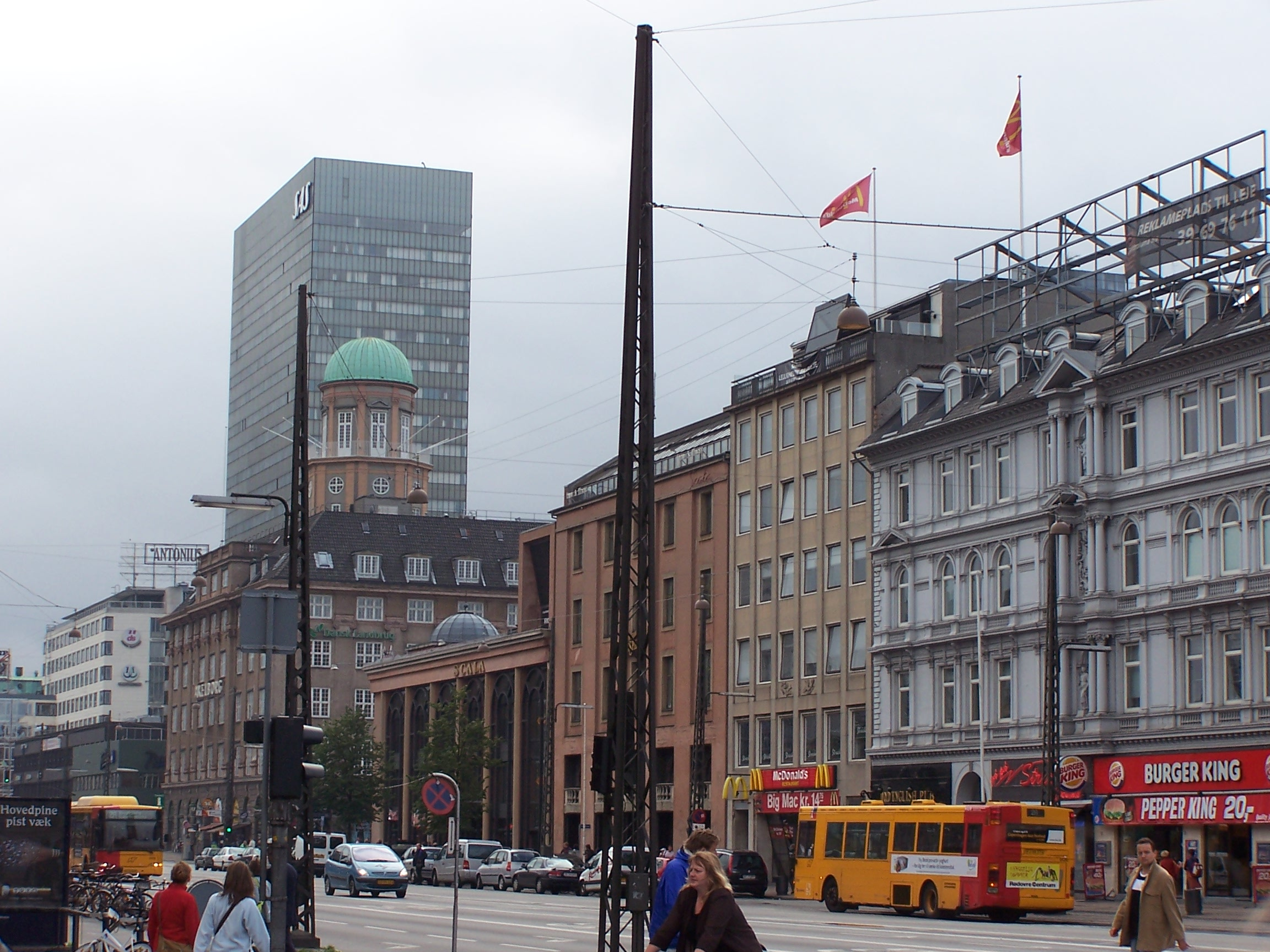 Vesterbrogade, Copenhagen.